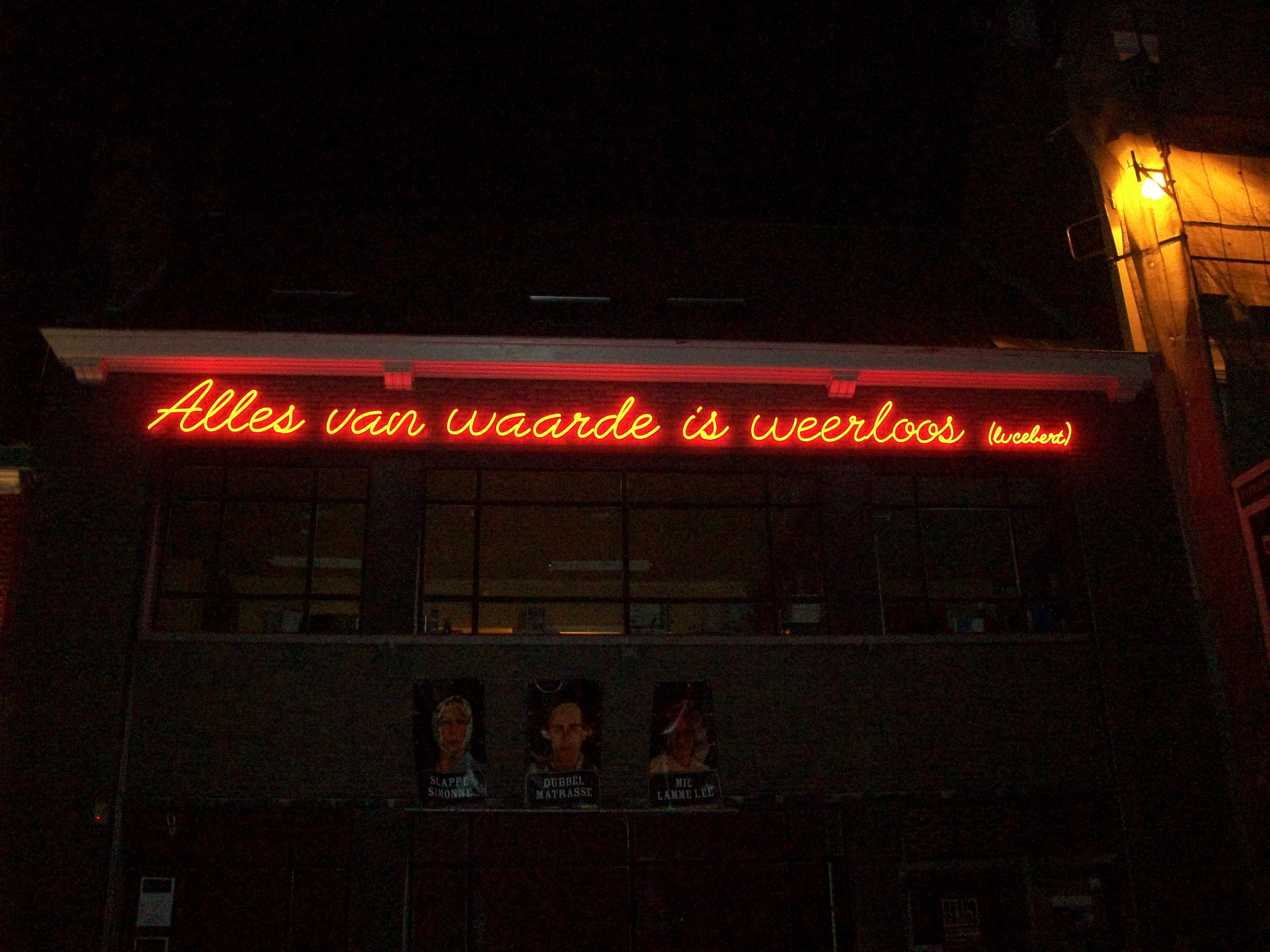 Alles van Waarde is Weerloos, Lucebert. Citaat & naamsvermelding op gevel van café Trefpunt in Gent.